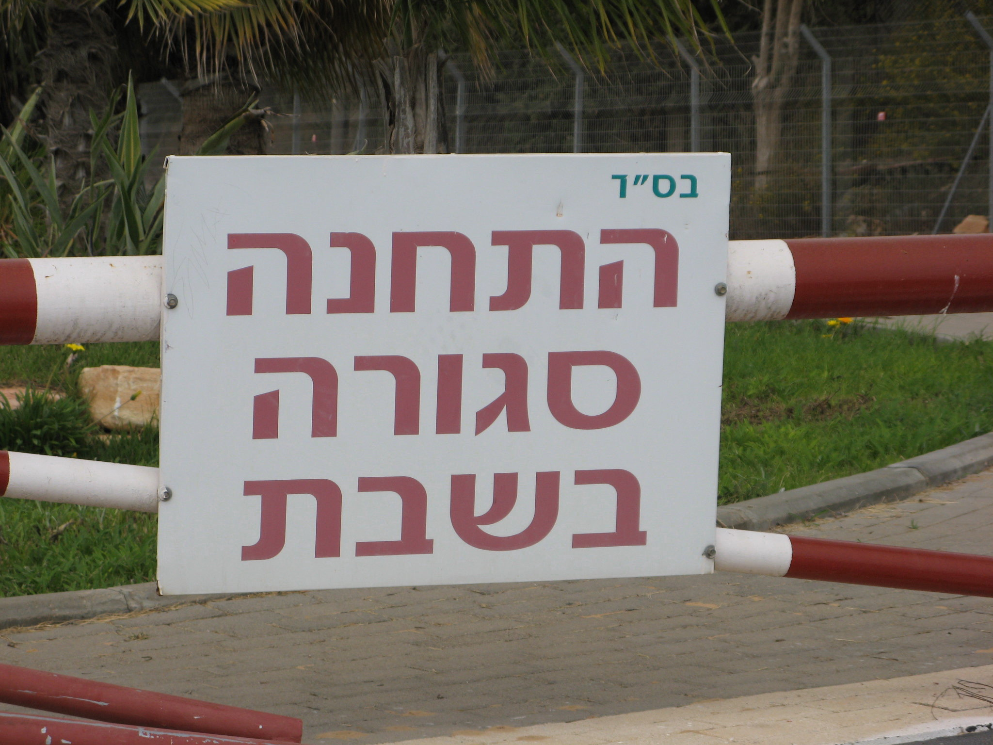 Sign reporting that a gas station is closed on Shabbat, Jerusalem area, Israel